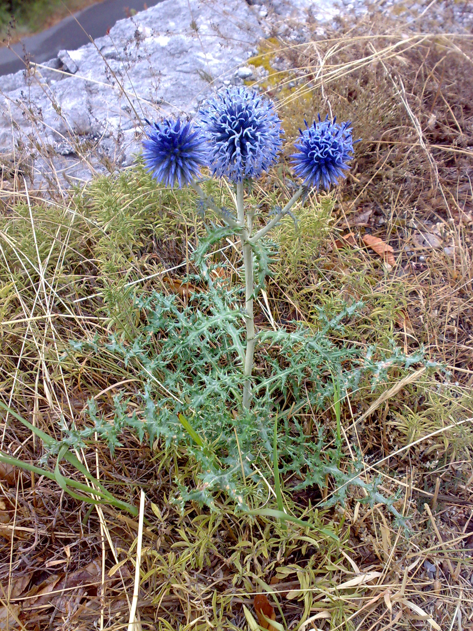 Echinops ritro, in Negosji (Lovcen), Montenegro